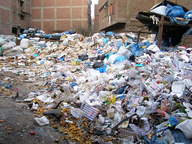 Trash on a Street in MOqattam Village